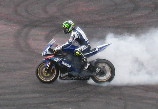 Cal Crutchlow after his win at Nürburgring 2009